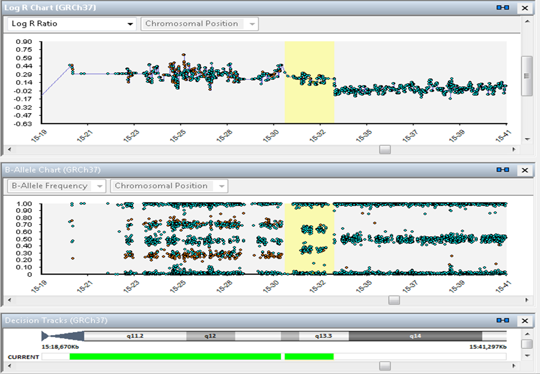 An example of Isodicentric 15. The original sample was GM20556.